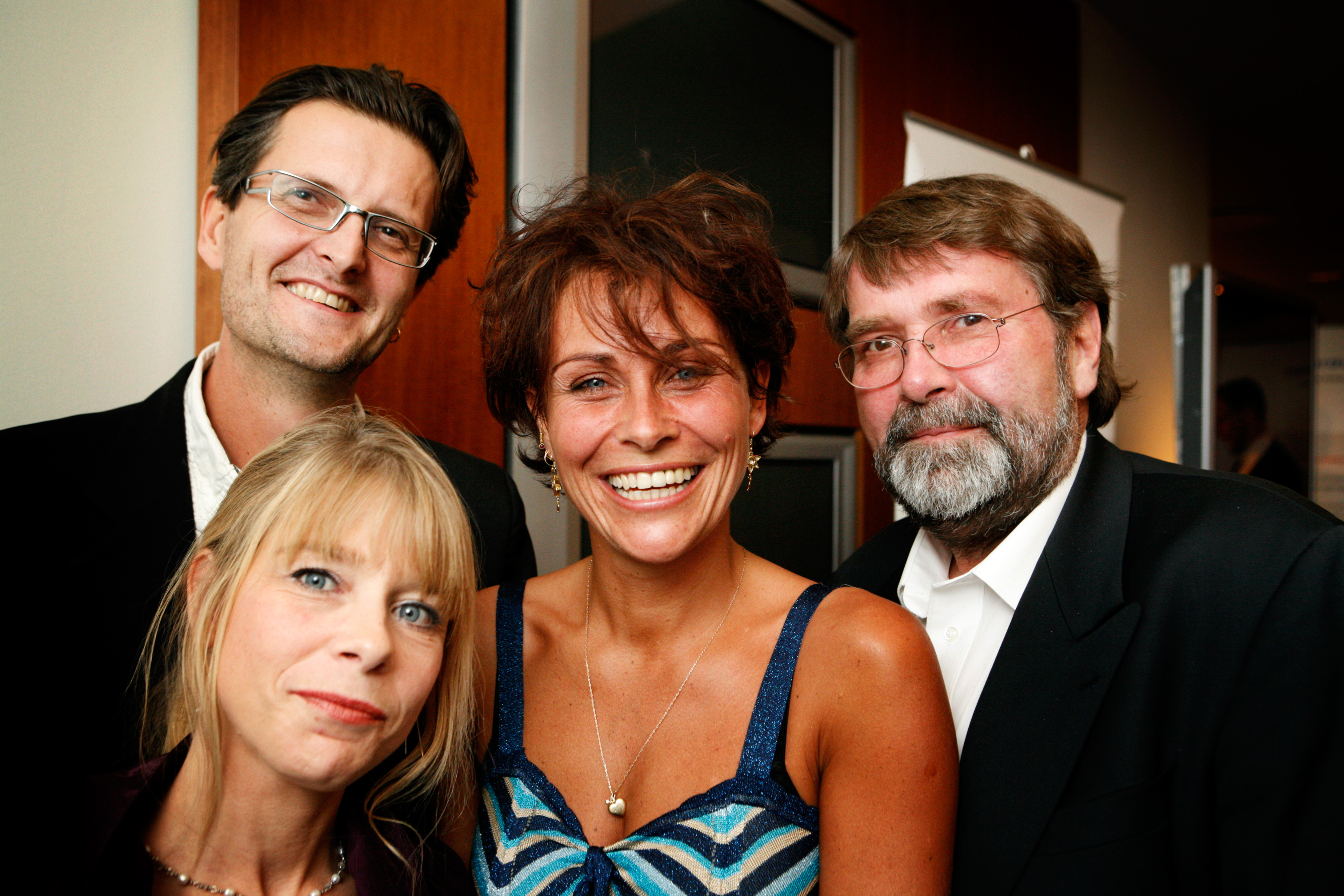 Vinnare av Nordiska rådets filmpris 2005 Keywords: Film Prize